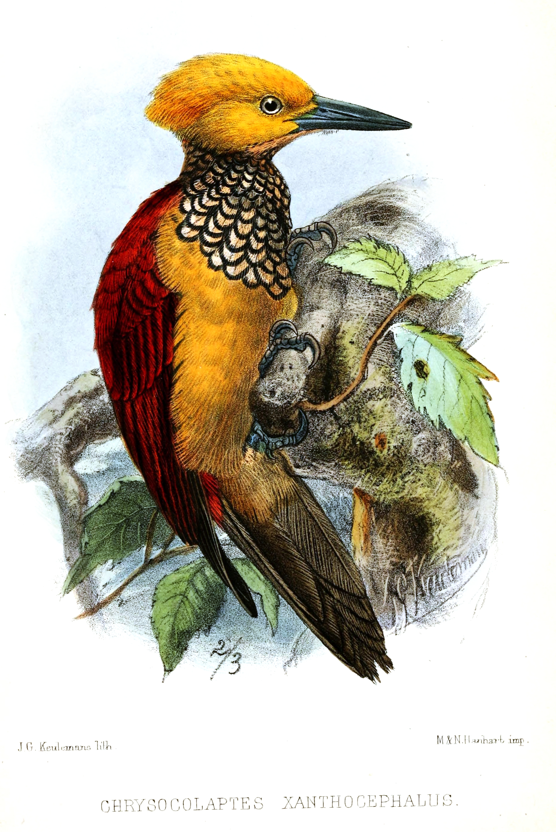 « Chrysocolaptes xanthocephalus » = Chrysocolaptes xanthocephalus (Yellow-faced Flameback)